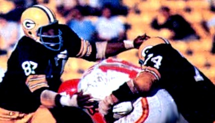 Green Bay Packers defensive linemen Willie Davis (left) and Henry Jordan (right) tackle Kansas City Chiefs quarterback Len Dawson (middle) in Super Bowl I.